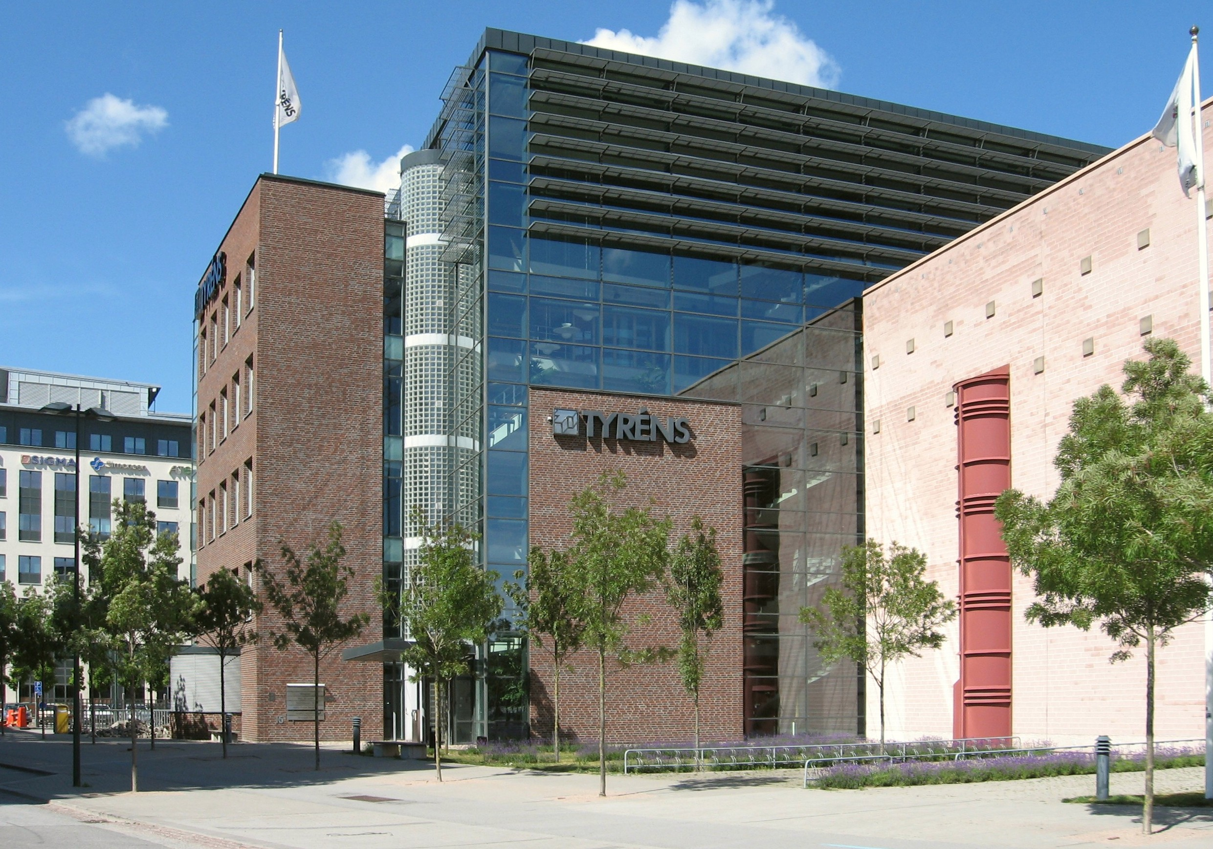 Building Kranen 9 Malmö, Tyréns's office building in Malmö